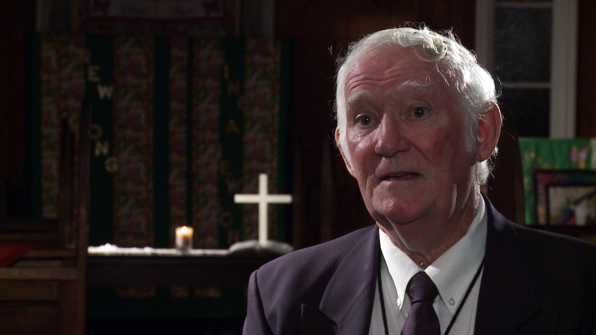 former Australian Senator, Reverend John Woodley in "Unfiltered Breathed In - The Truth about Aerotoxic Syndrome"